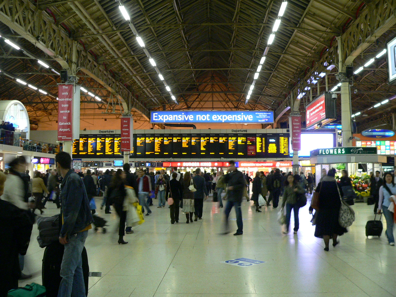 The western concourse and departures board at London Victoria station on 24 October 2005.